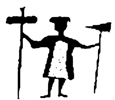 Sami deity Thoragales or Horagalles on a Sami shamanic drum (Runebomme) from Norway. Illustrated by the Thomas von Westen, early 18th century. Early sources to sami religion tended to compare the sami pantheon to those of other religions, thus Thoragalles was seen as an equalient to the norse thunder god Thor